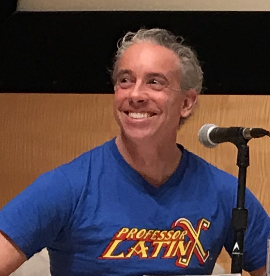 Image of Frederick Luis Aldam